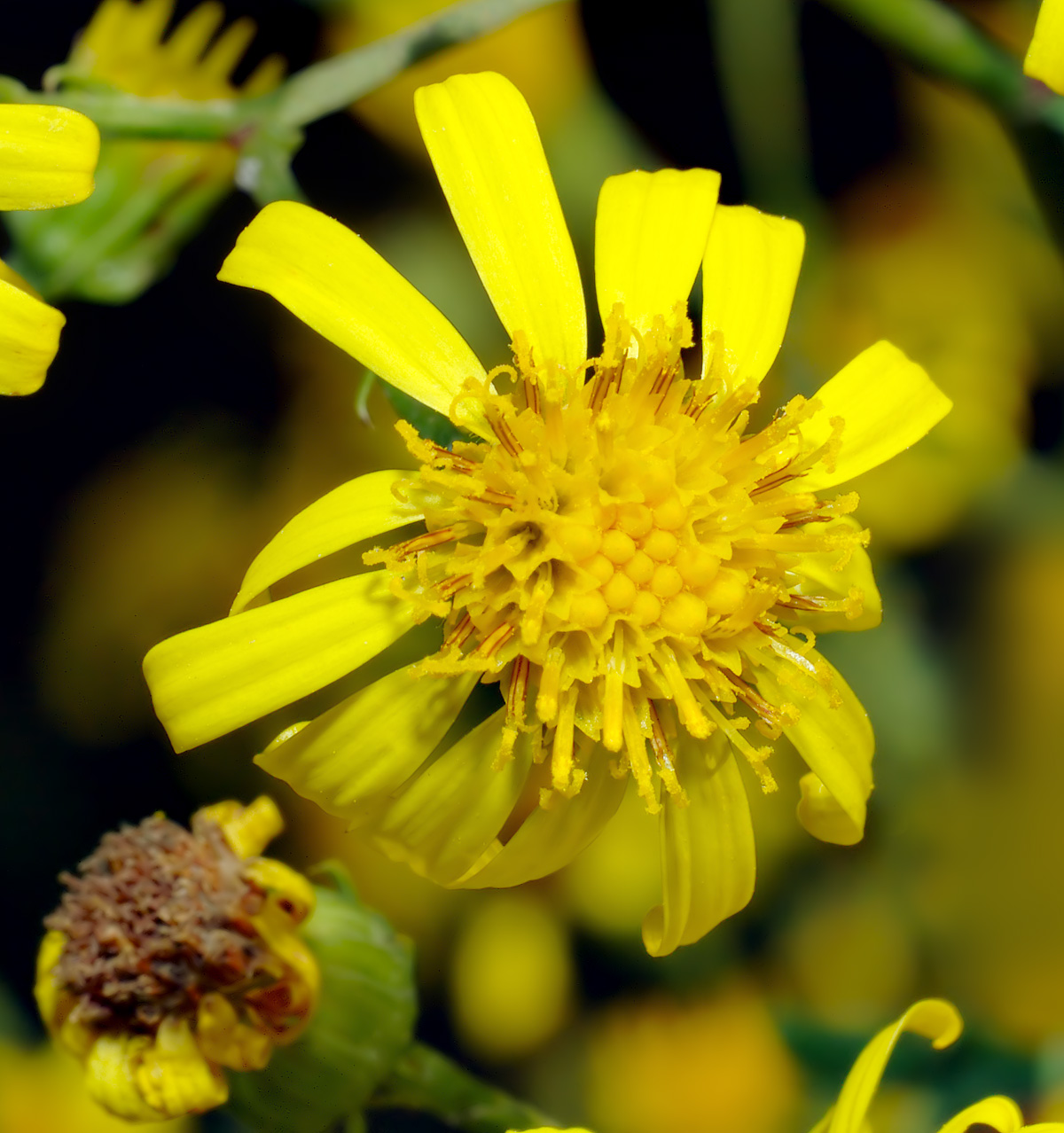 This image shows a Hoary groundsel (Senecio erucifolius, other name Jacobaea erucifolia).